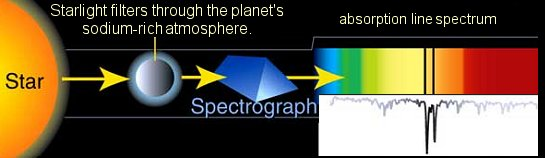 Sodium in the atmosphere of the Hot Jupiter exoplanet of HD 209458, a 7th magnitude star, 150 light years away in the constellation Pegasus. Sodium filters out light from its parent star, and is detected using by analyzing absorption spectrum. Image Credit: A. Field, STScI